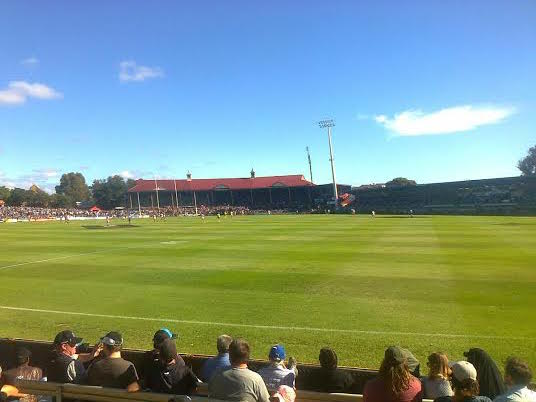 Picture of Norwood Oval during the 2015 NAB cup match between Port Adelaide and the West Coast Eagles.